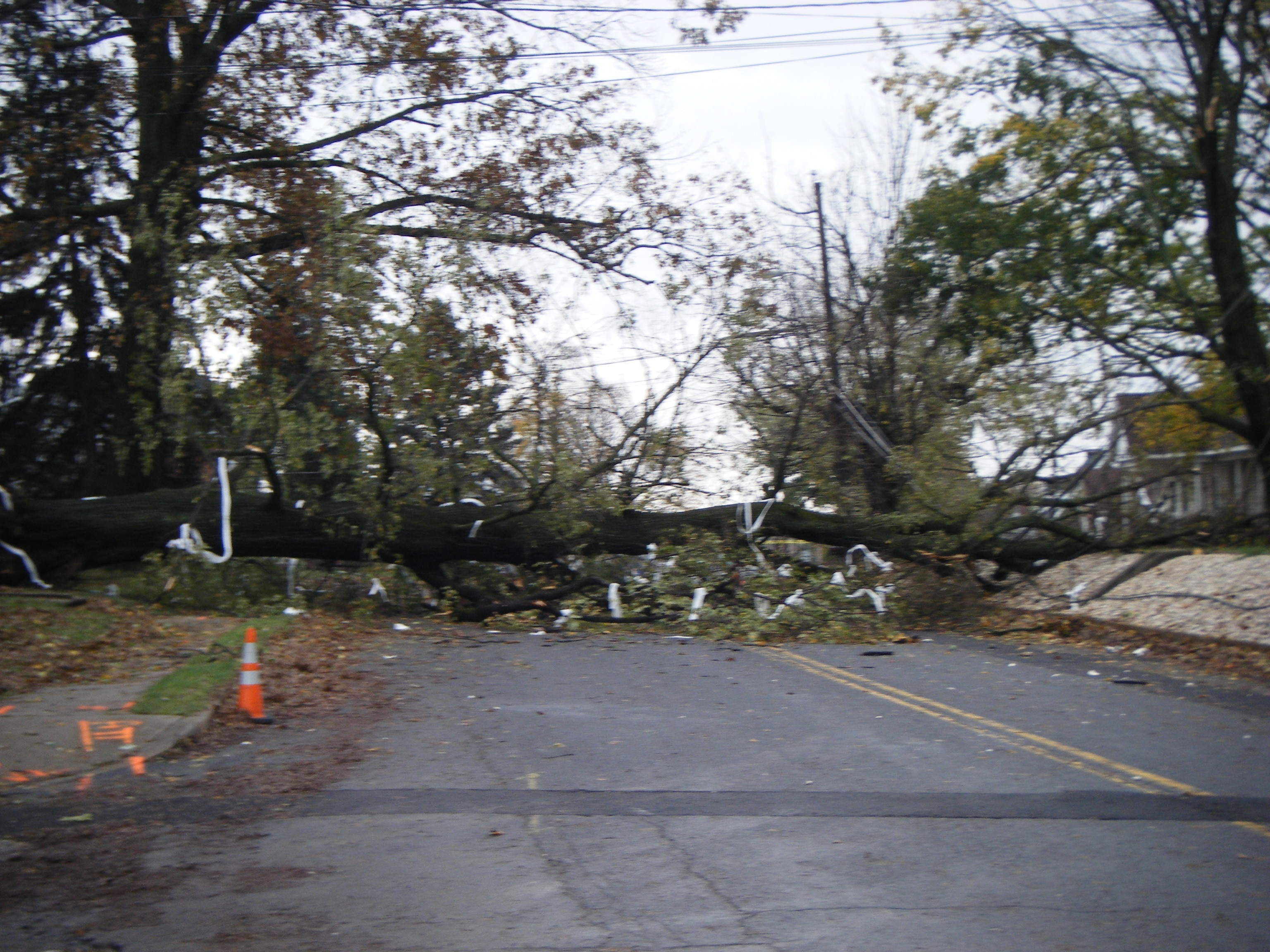 A tree that was downed by Hurricane Sandy in Kutztown, Pennsylvania. The tree fell across Kutztown Road and brought down some wires, snapping a utility pole.